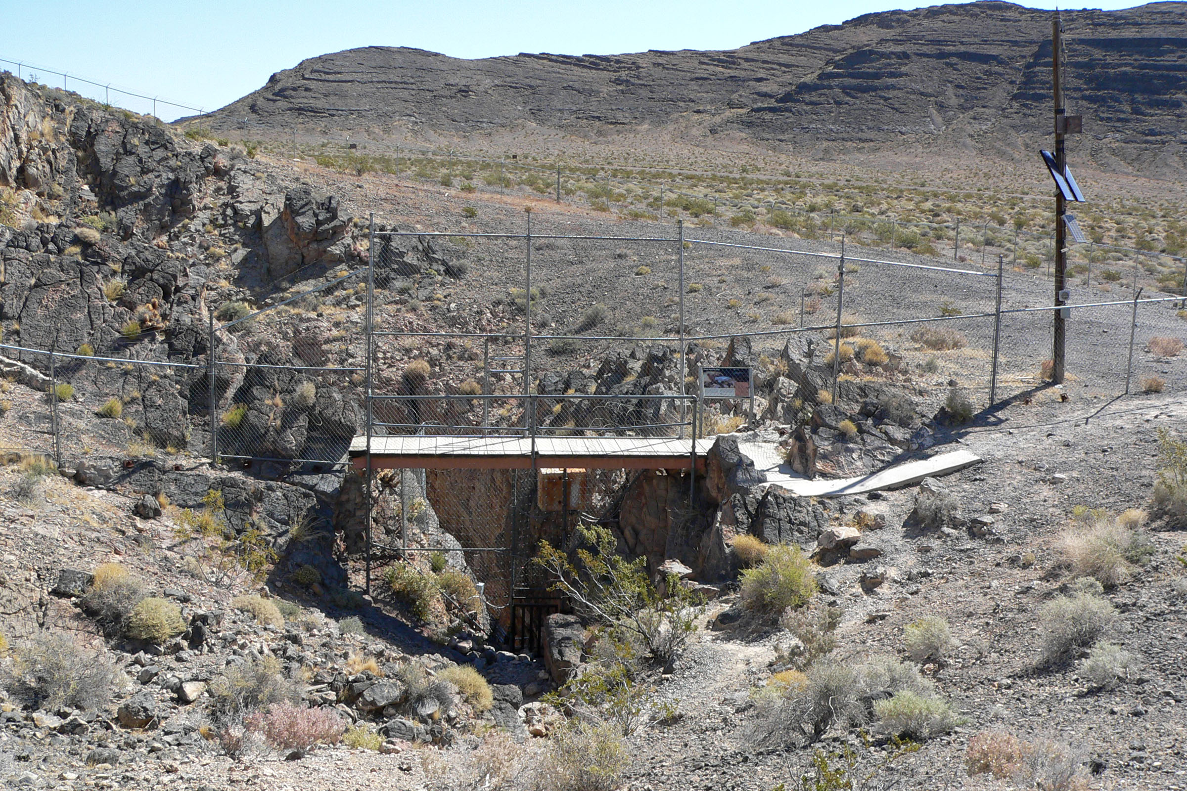 Devils Hole, Death Valley National Park, southern Nevada